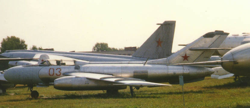 Yakovlev Jak-25 interceptor at Monino museum